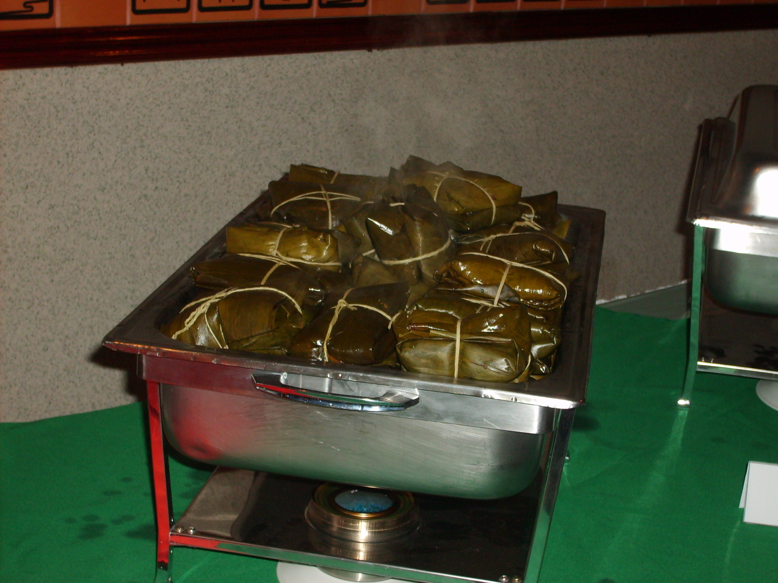 Costa Rica tamales in a pan.